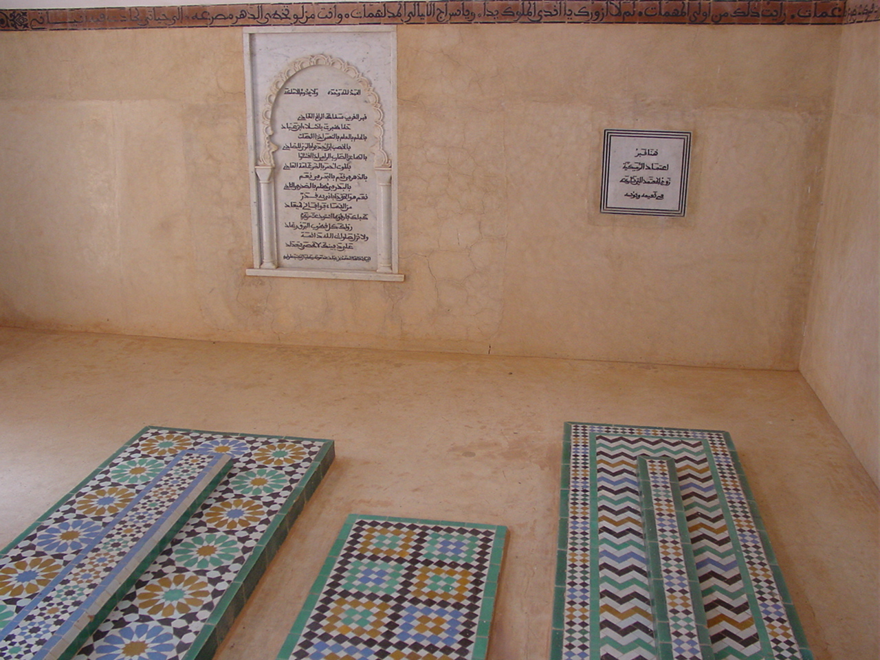 Tomb of the poet (born in Beja, currently Portugal) Al-Mu'tamid